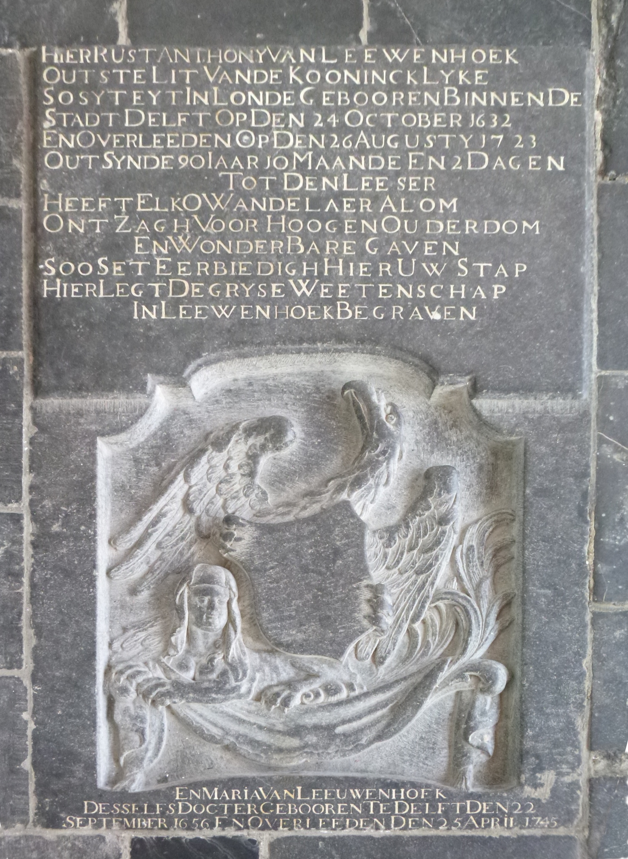 Tombstone of Antonie van Leeuwenhoek and his daughter Mary in the Oude Kerk, Delft, Netherlands Original inscription: „Hier rust Anthony van Leewenhoek, outste lit van de Koonincklyke Sosyteyt in Londe. Gebooren binnen de stadt Delft op den 24 October 1632 en overleeden op den 26 Augusty 1723 out synde 90 Jaar 10 maande en 2 daagen. Tot den leeser: Heeft elk, o wandelaer, alom ontzagh voor hoogen ouderdom en wonderbare gaven, soo set eerbiedigh hier uw stap: hier legt de gryse weetenschap in Leewenhoek begraven. en Maria van Leeuwenhoek desselfs docter gebooren te Delft den 22 September 1656 en overleeden den 25 April 1745“. English translation: This is where Anthony van Leeuwenhoek rests, oldest member of the Royal Society in London. Born on October 24, 1632 in Delft and died on August 26, 1723 at the age of 90 years, 10 months and 2 days. To the reader: Are you, oh wanderer, everywhere in awe of old age and wonderful gifts, so take your step here respectfully: here rests the hoary science in Leeuwenhoek. And Maria van Leeuwenhoek, his daughter, who was born in Delft on September 22, 1656 and died on April 25, 1745